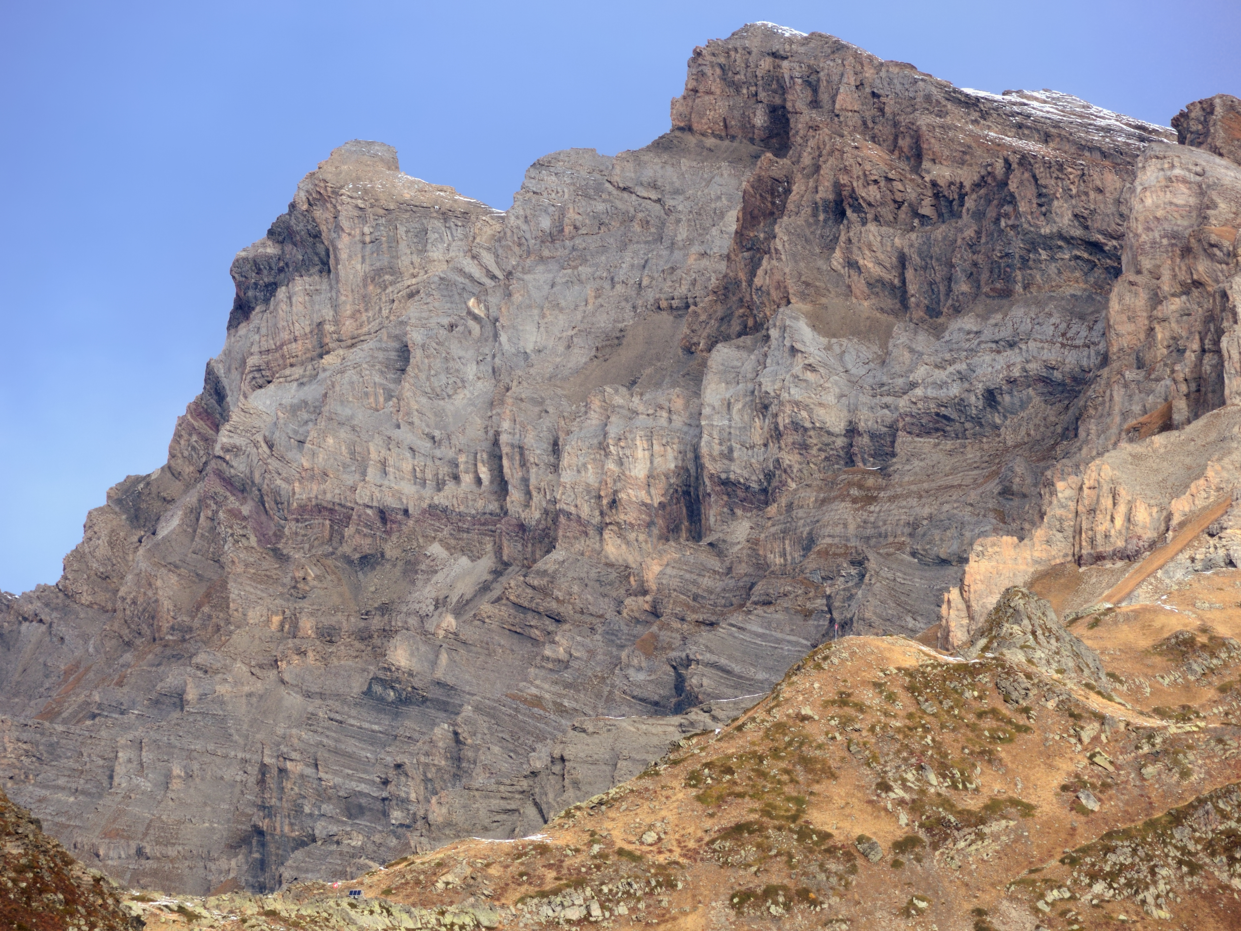 Dent de Morcles from Tête du Portail